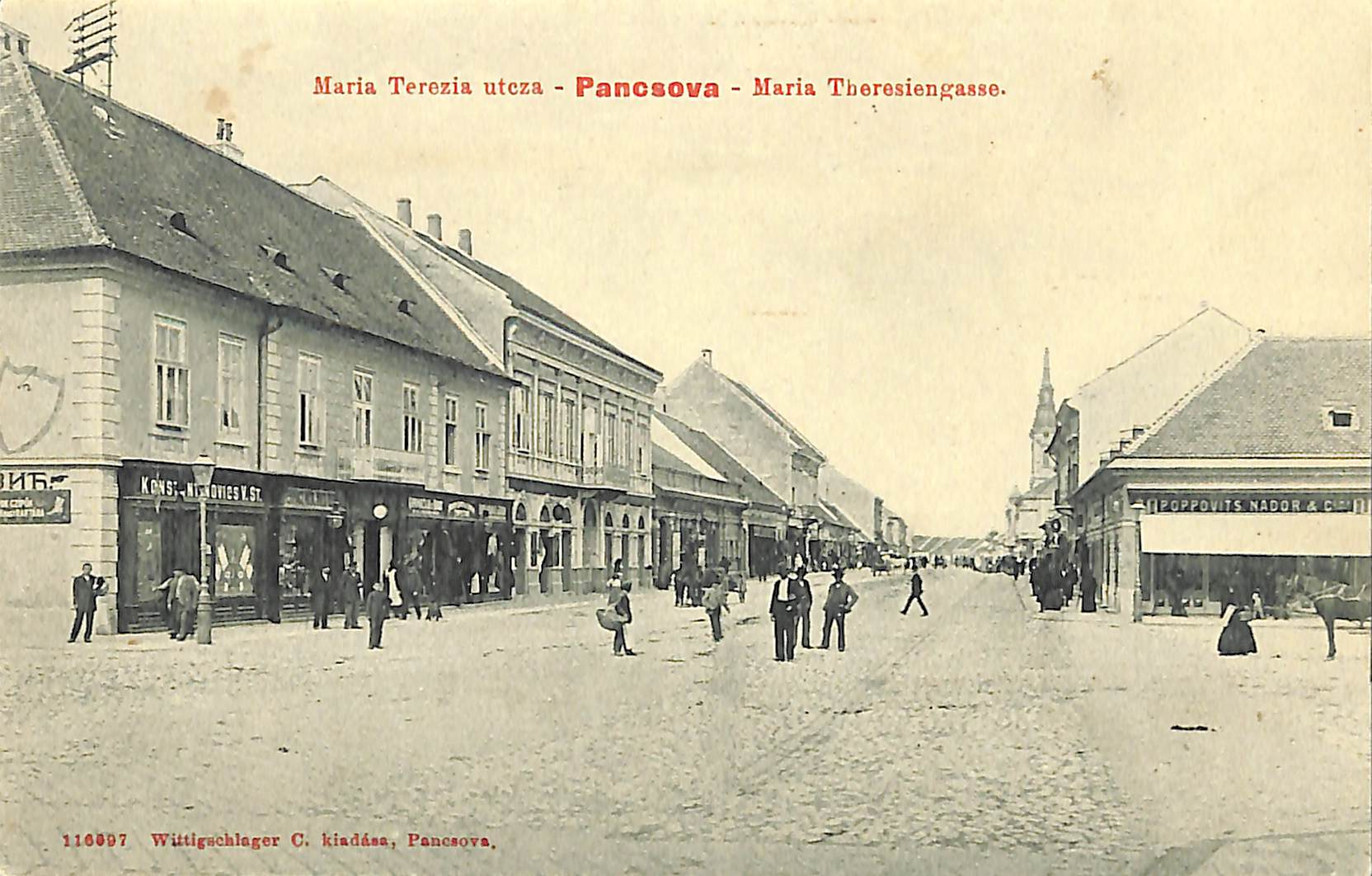 Street of general Petar Arčić in Pančevo, once the street of Maria Theresa